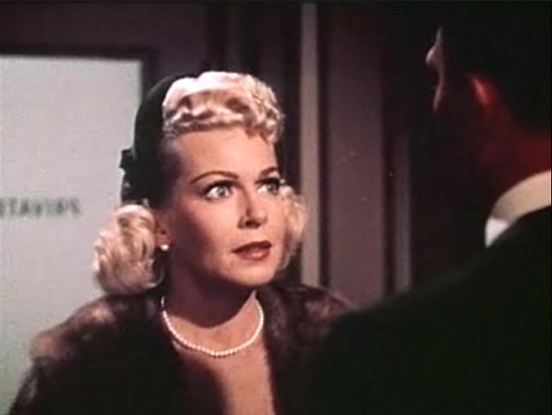 Screenshot of Lana Turner from the trailer for the film Imitation of Life